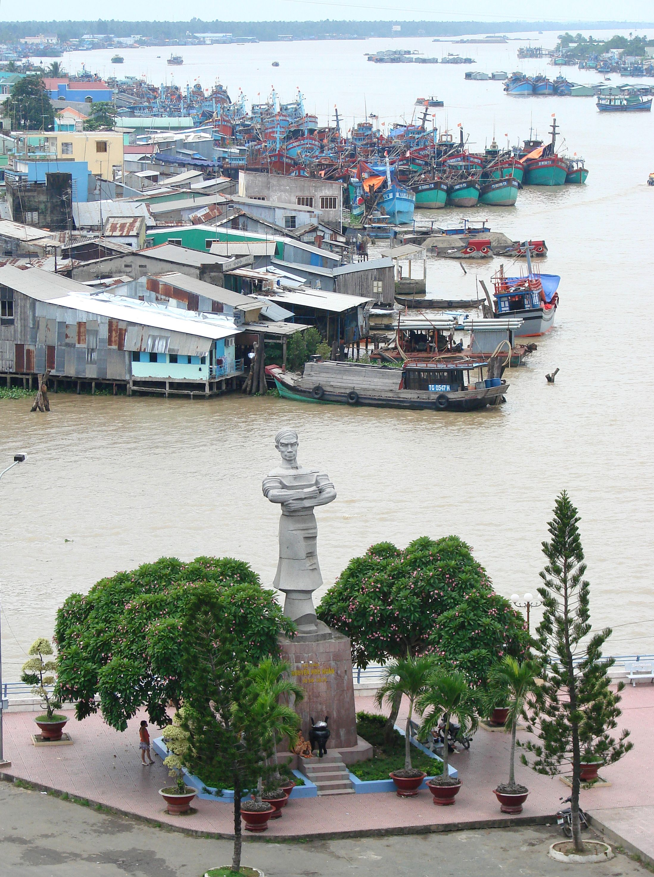 Overlooking My Tho, Mekong delta, Vietnam. July 2009.